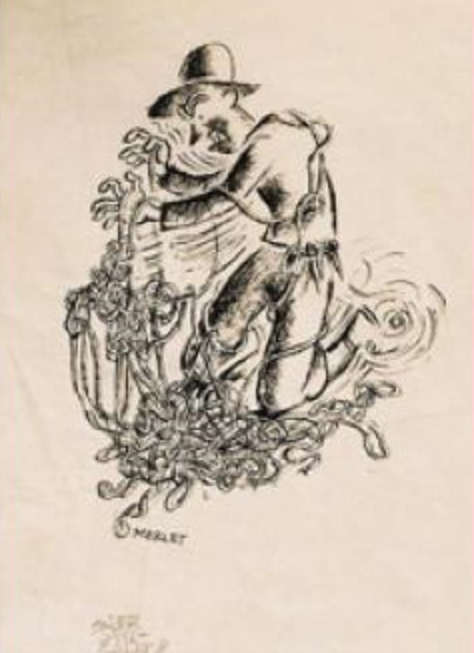 The rope salad